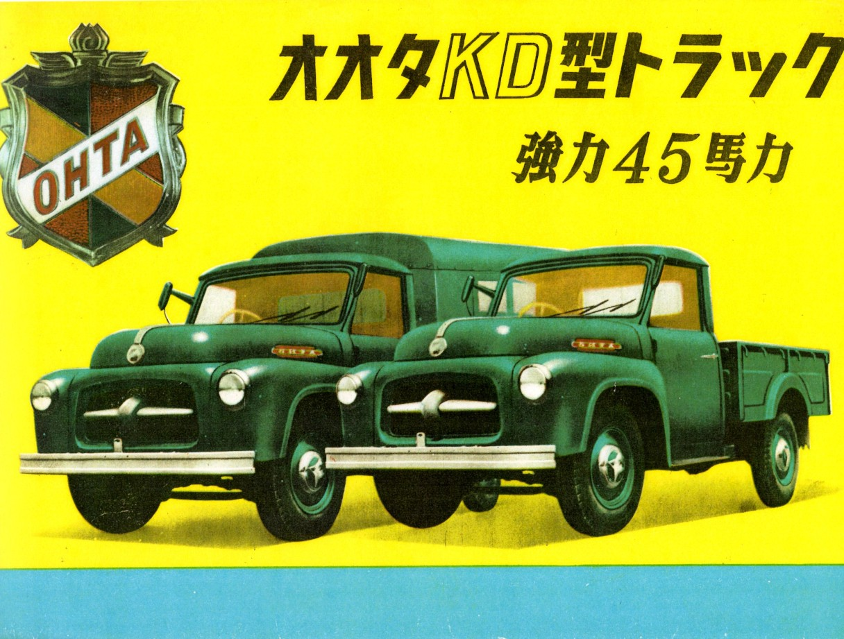 Although the last Ohta cars were built in 1957, some trucks were produced for a short while after that.